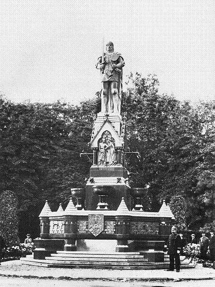 Rolandbrunnen (Berlin) around 1900